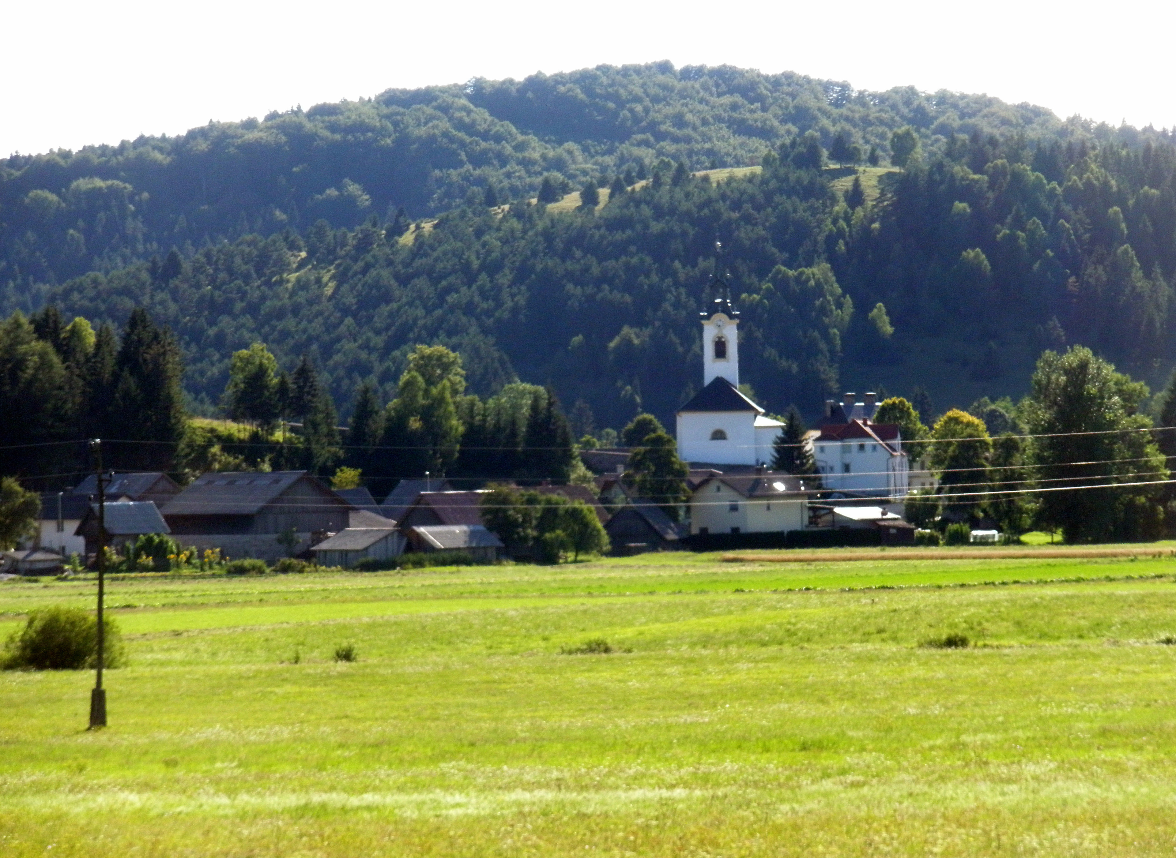 Fara on Bloke with church and parish-house in Slovenia